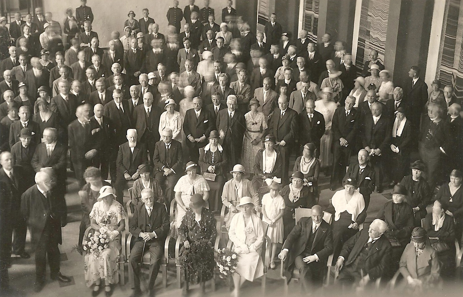 John Tattersall bij de opening van het nieuwe stadhuis te Enschede.